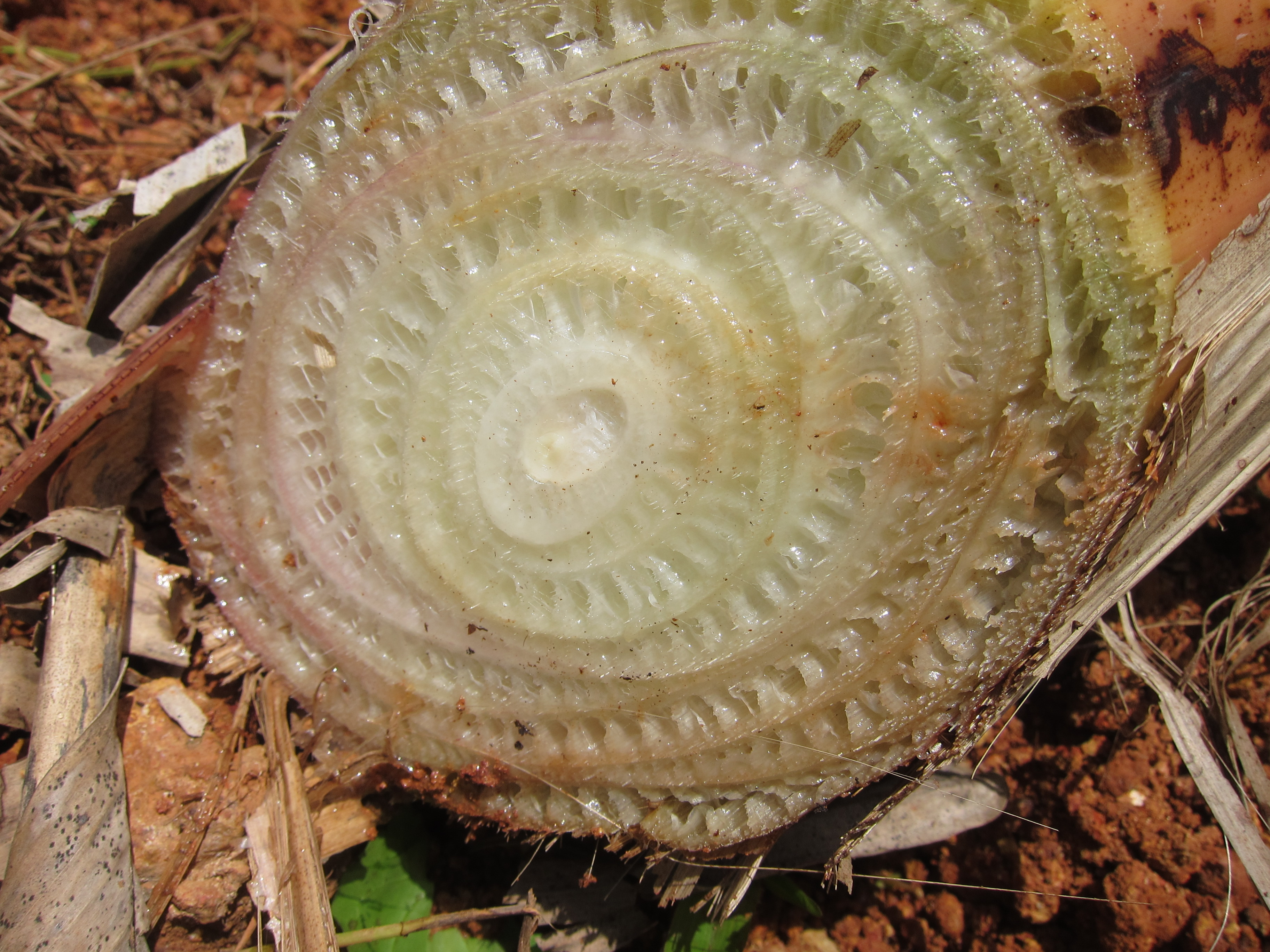 Banana - Plantian വാഴ - വാഴപിണ്ടി നെടുകെ ഛേദിച്ചത്